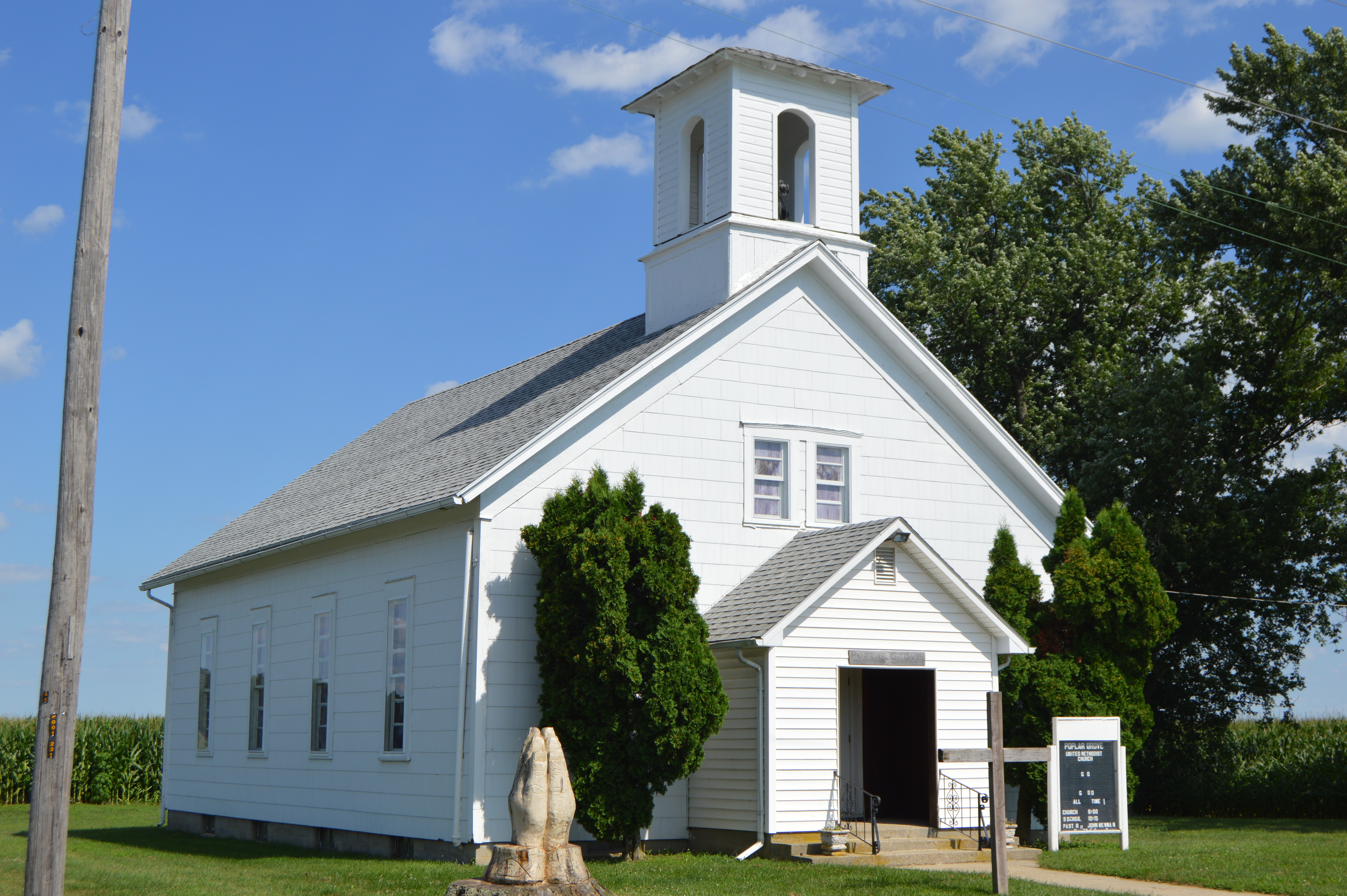 Front and northern side of the former Poplar Grove United Methodist Church, located at the junction of W500N and N1150W south of Young America in Ervin Township, Howard County, Indiana, United States. It is the last remaining building at the site of the former community of Poplar Grove.